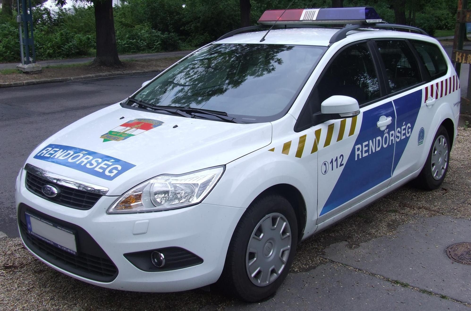 Hungary police car